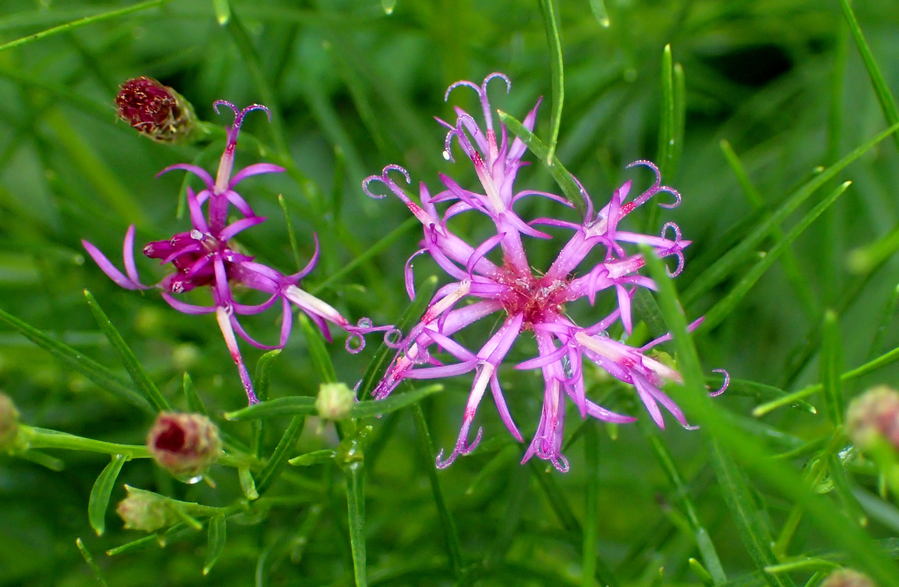 Vernonia lettermanii at the New York Botanical Garden